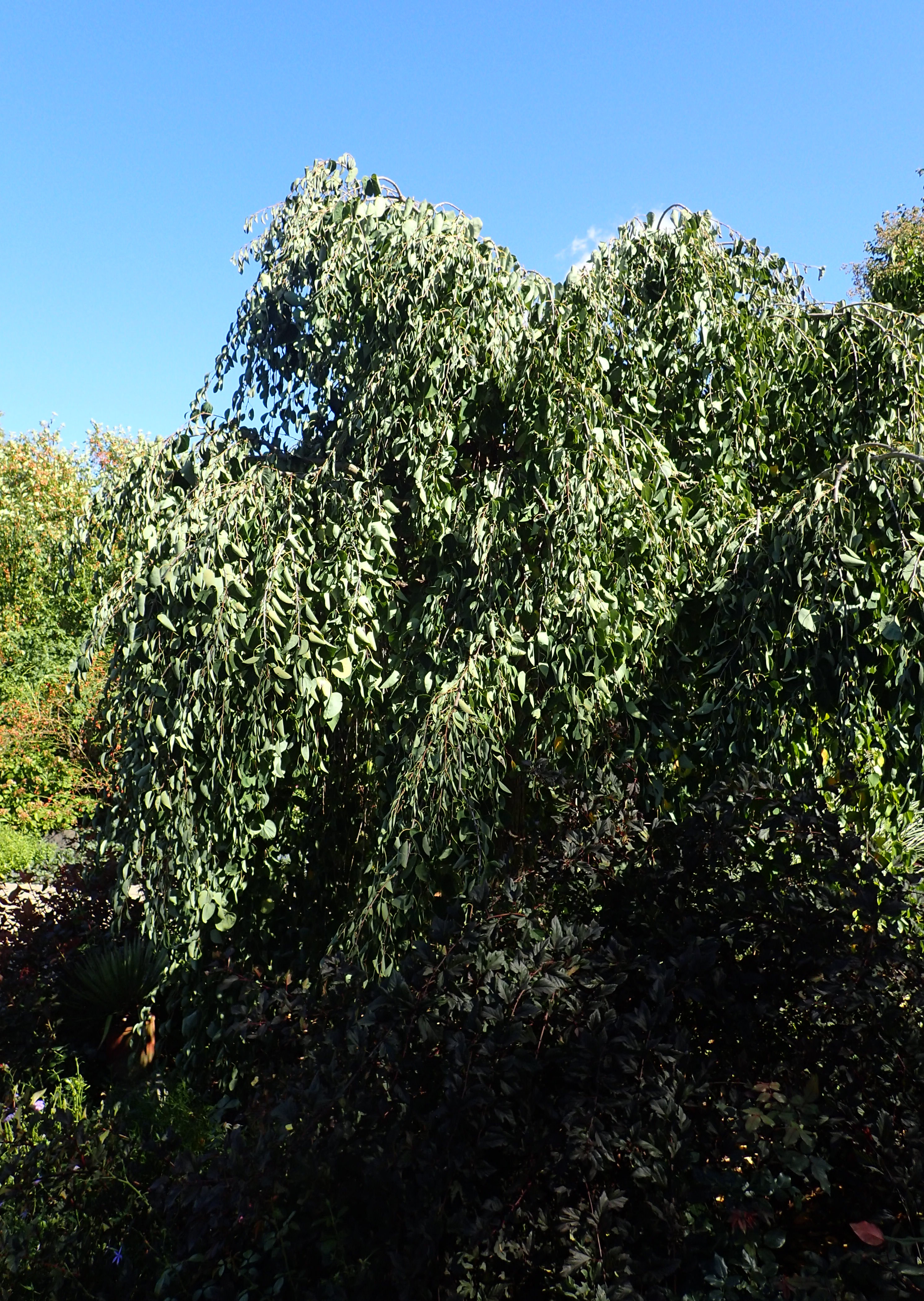 Cercidiphyllum japonicum 'Pendulum' in Olbrich Botanical Gardens, Madison